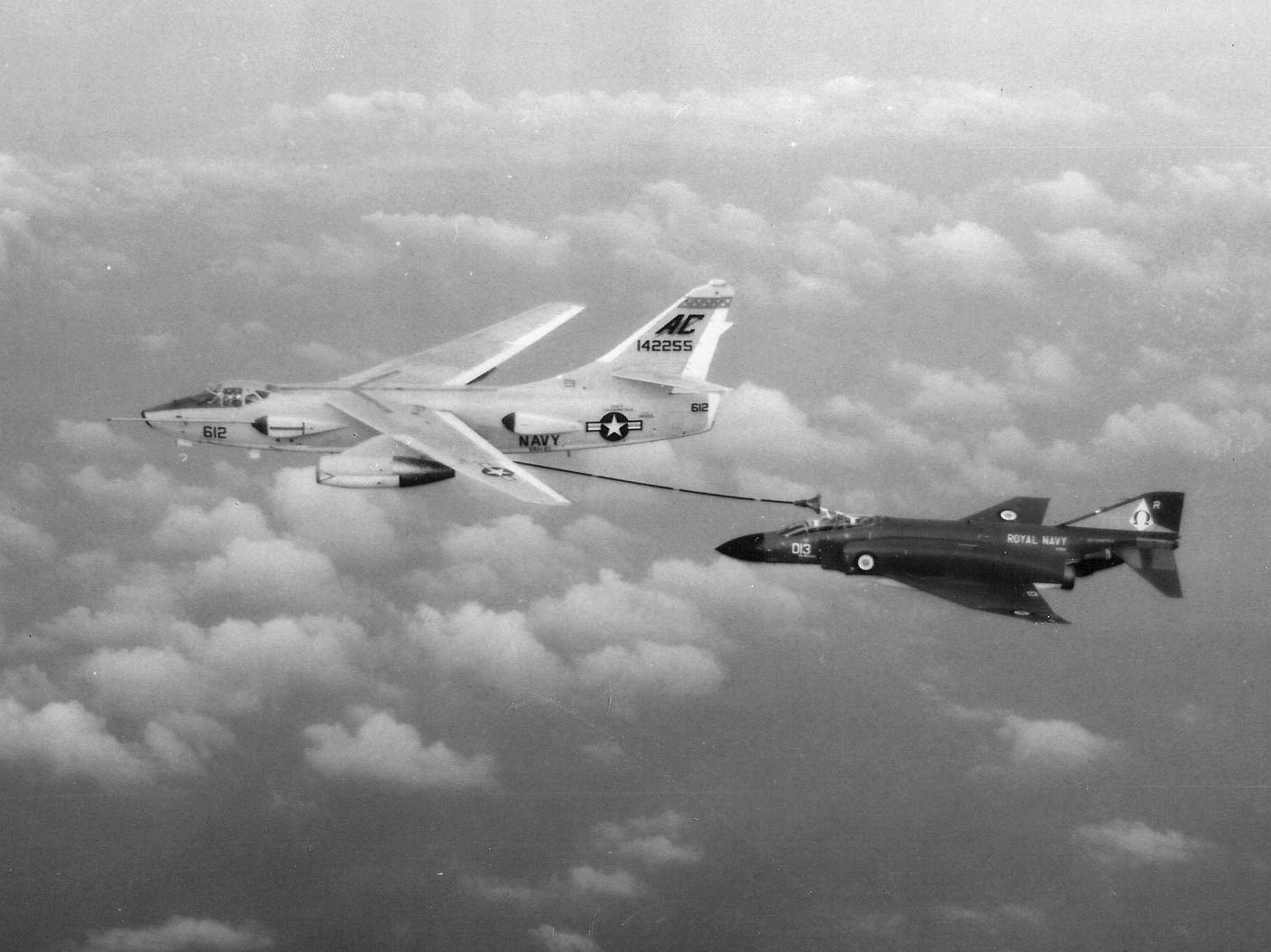 A U.S. Navy Douglas EKA-3B Skywarrior (BuNo 142255) of Heavy Attack Squadron VAH-10 Det.60 "Vikings" refuels a Royal Navy McDonnell Phantom FG.1 of 892 Naval Air Squadron. VAH-10 Det.60 was assigned to the aircraft carrier USS Saratoga (CVA-60), 892 NAS to HMS Ark Royal (R09).